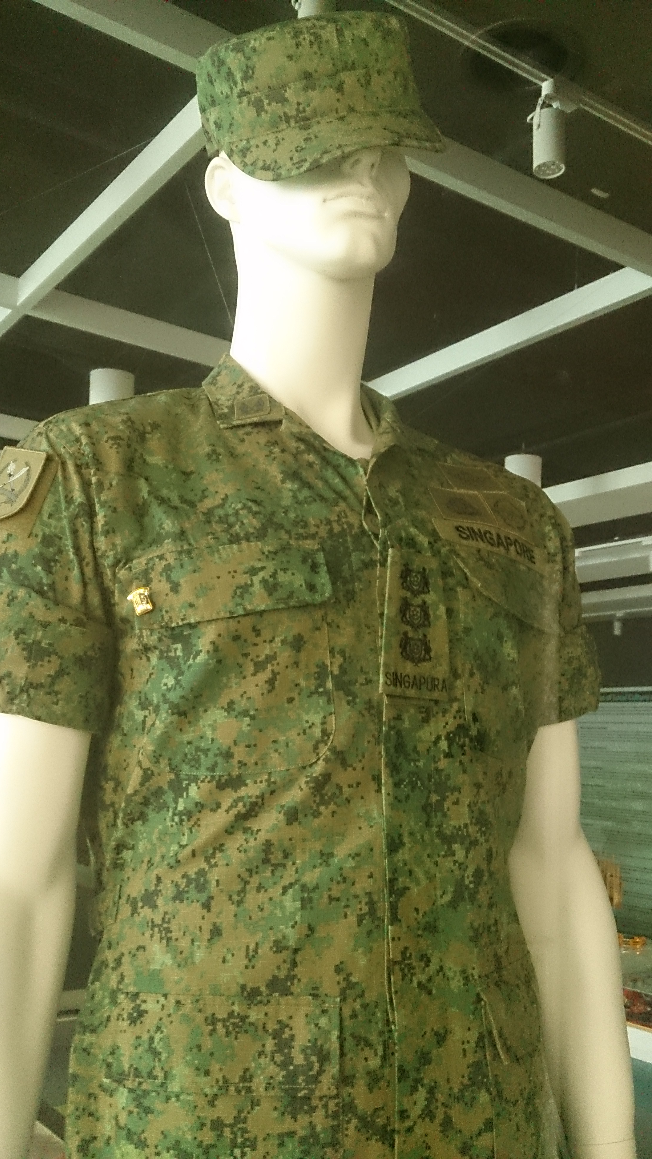 Number 4 uniform of a soldier in the Singapore Army bearing the rank of Colonel. The skills badges displayed on his chest are the Infantry Combat Skills badge, Basic Airborne wings and Basic Diver Course badge.